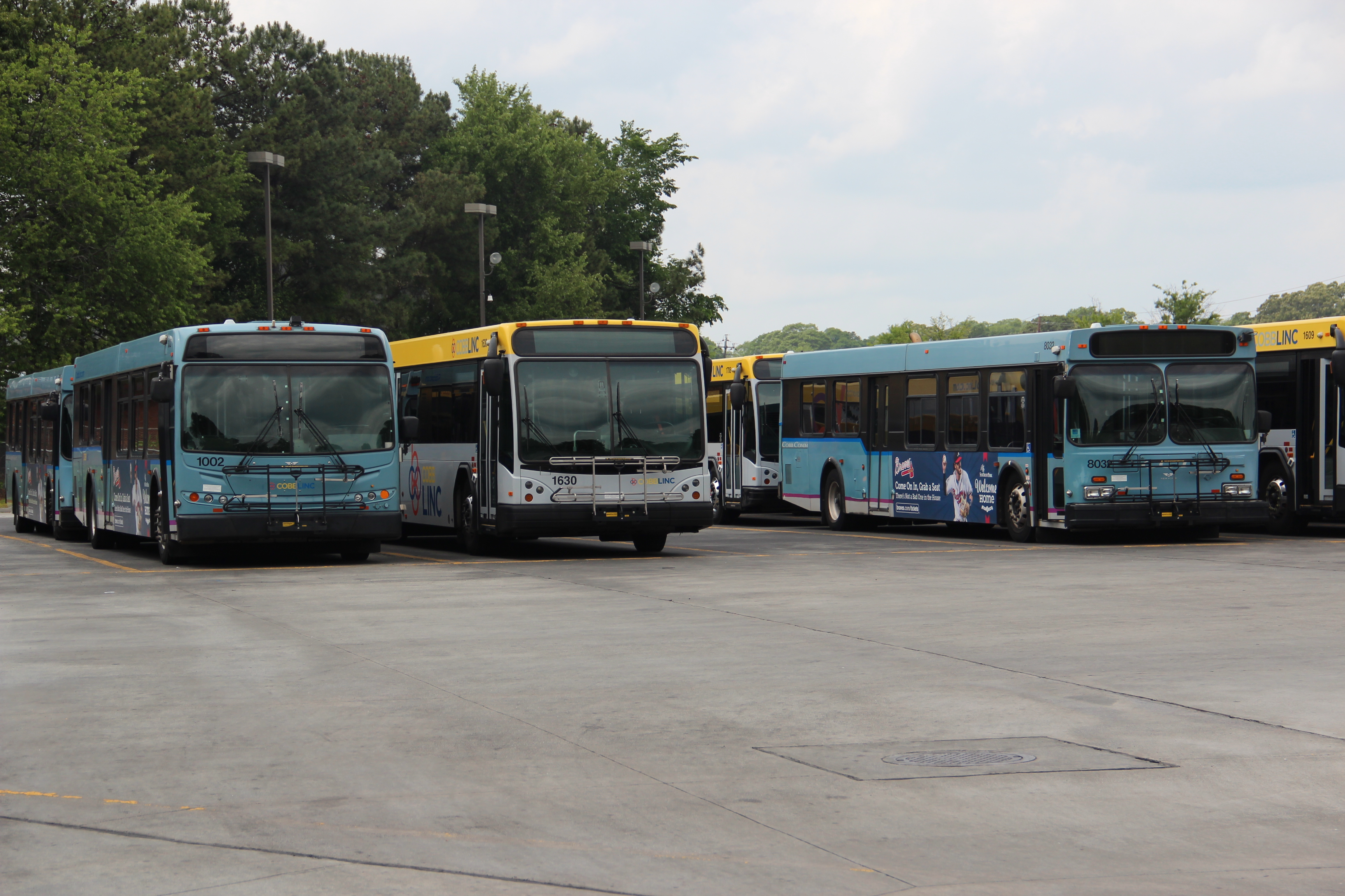 Parked Cobb Community Transit/CobbLinc buses